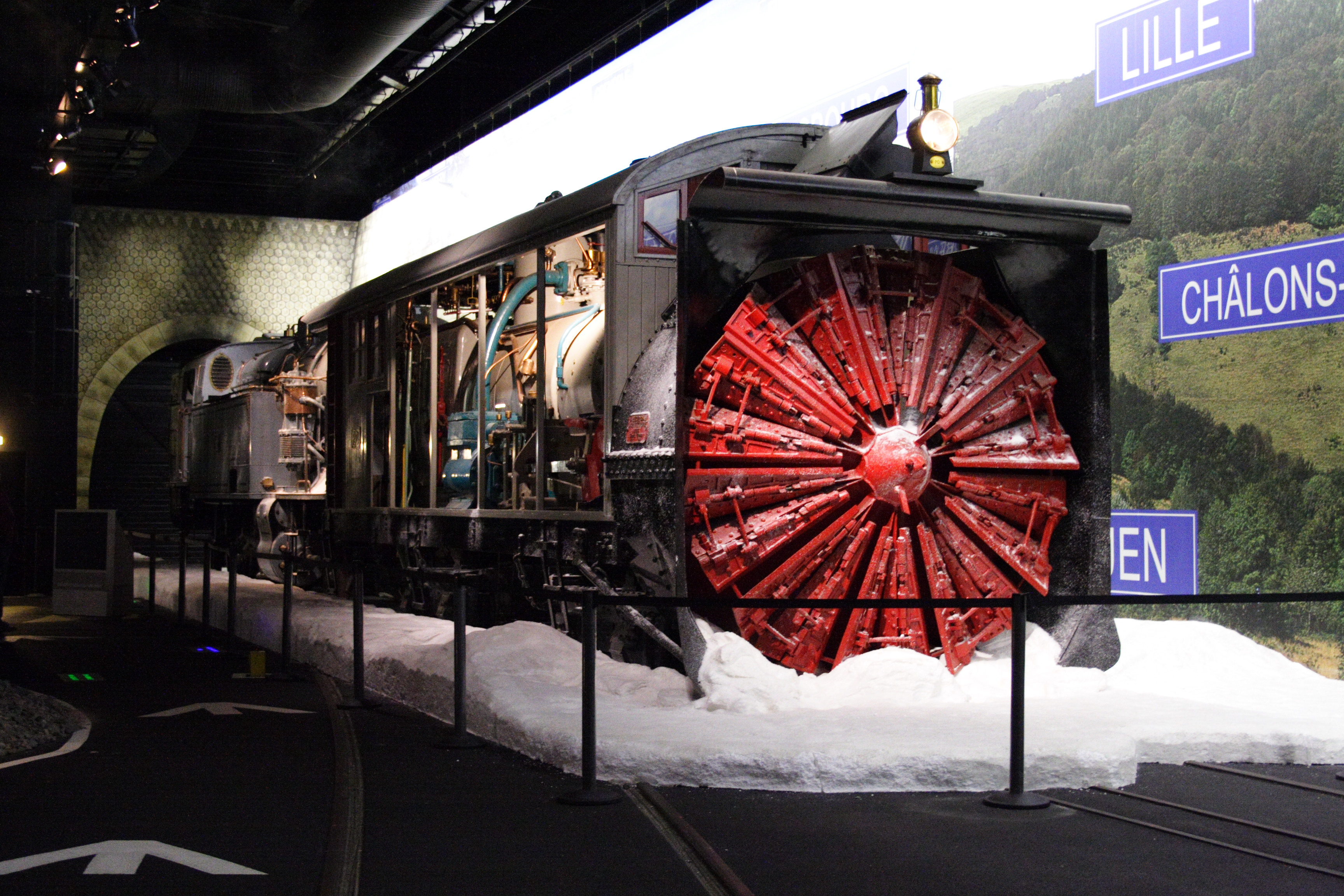 a rotary snowplow at Cité du Train de Mulhouse(Mulhouse, France)